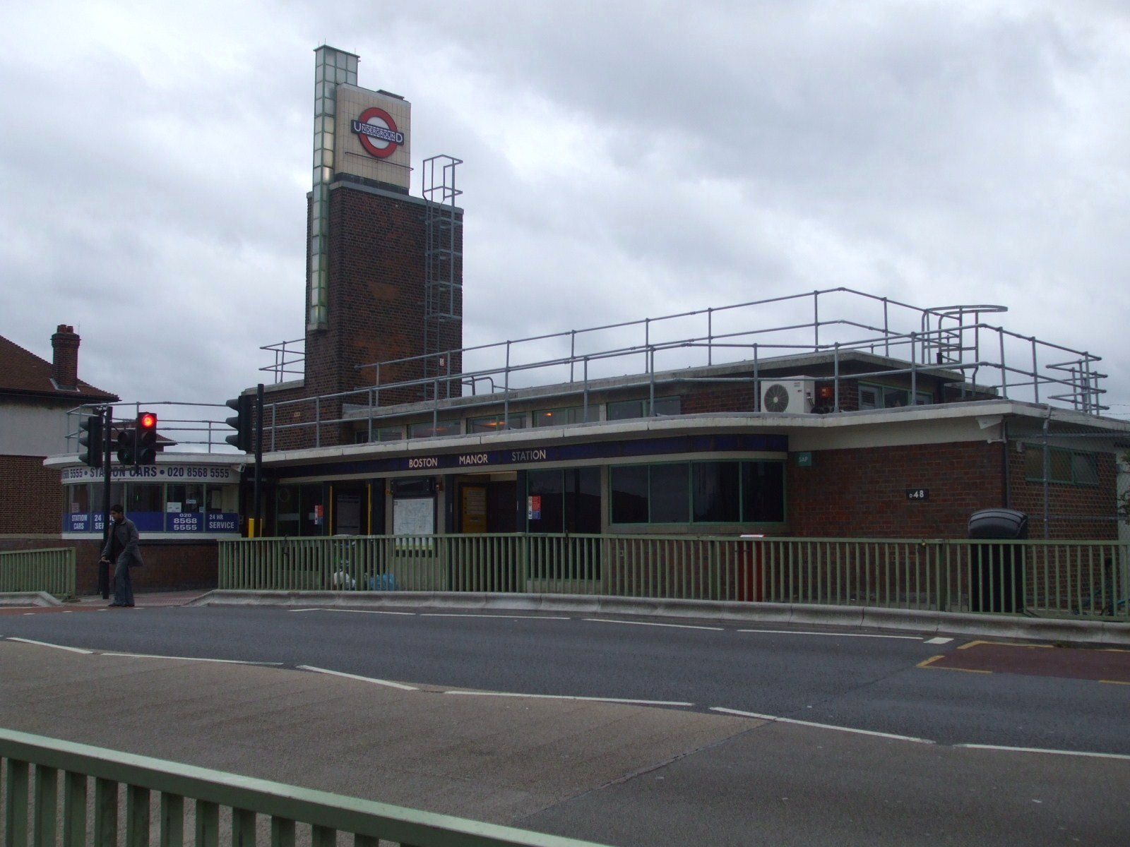 Boston Manor tube station